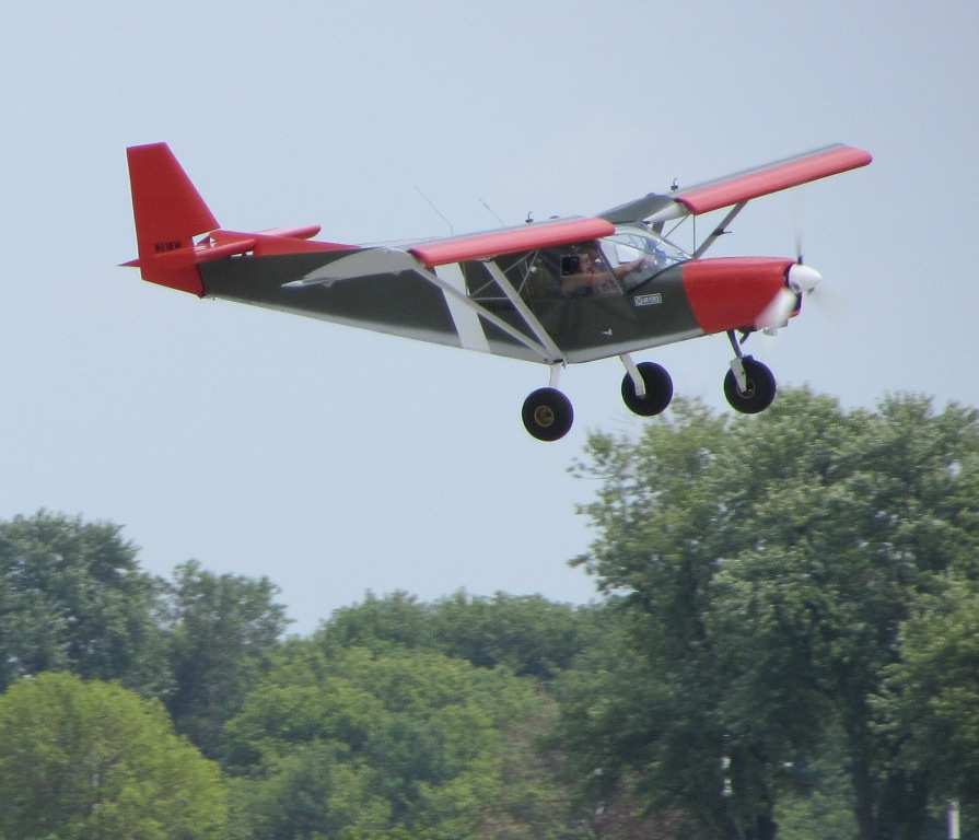 Czech Aircraft Works Spol Sro ZENAIR CH 701 STOL